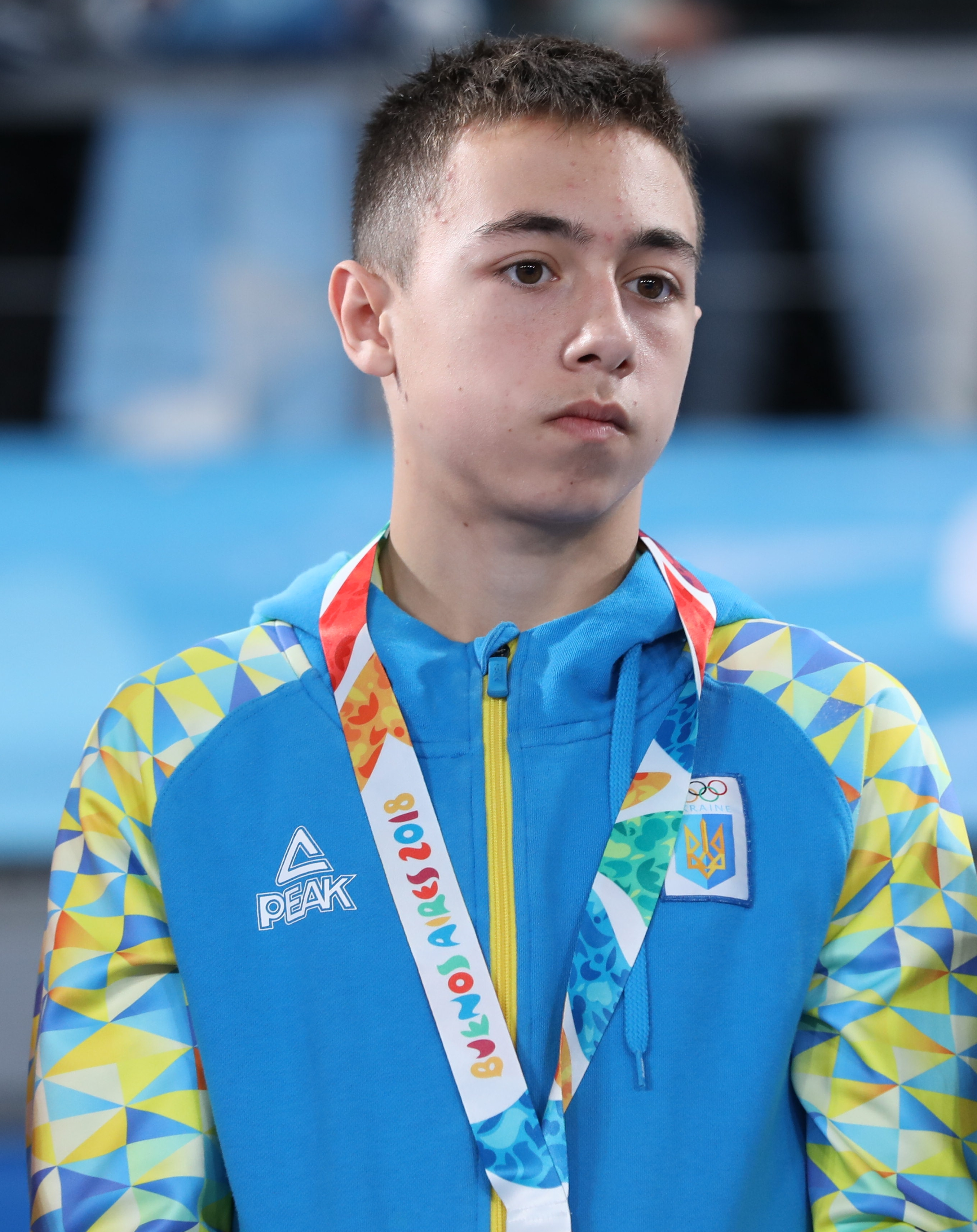 Gymnastics mixed multi-discipline team competition: Victory ceremony